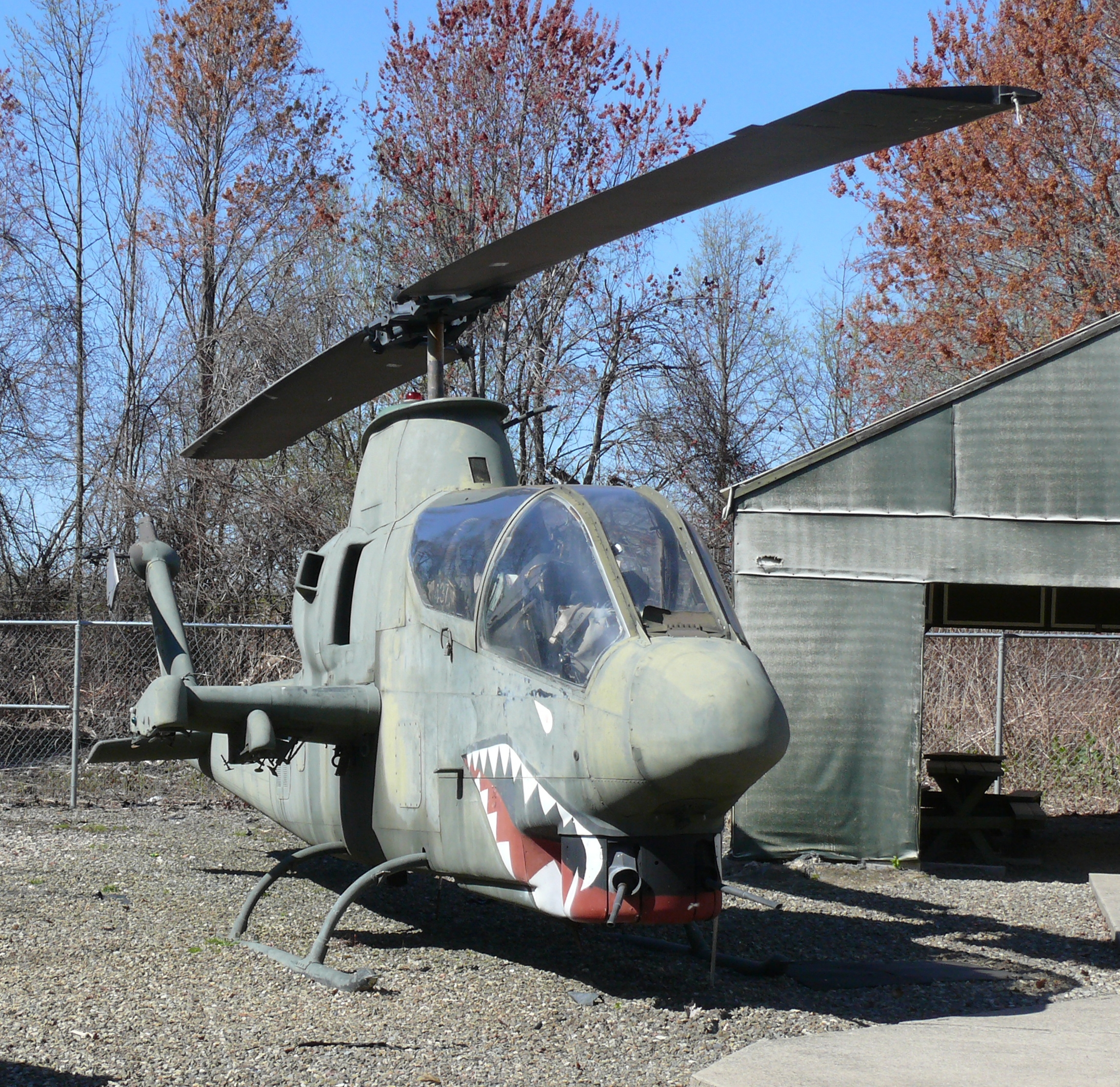 Bell AH-1 Cobra Gunship Attack Helicopter in the Aviation Hall of Fame and Museum of New Jersey. The Bell AH-1 Cobra is a two-bladed, single engine attack helicopter.